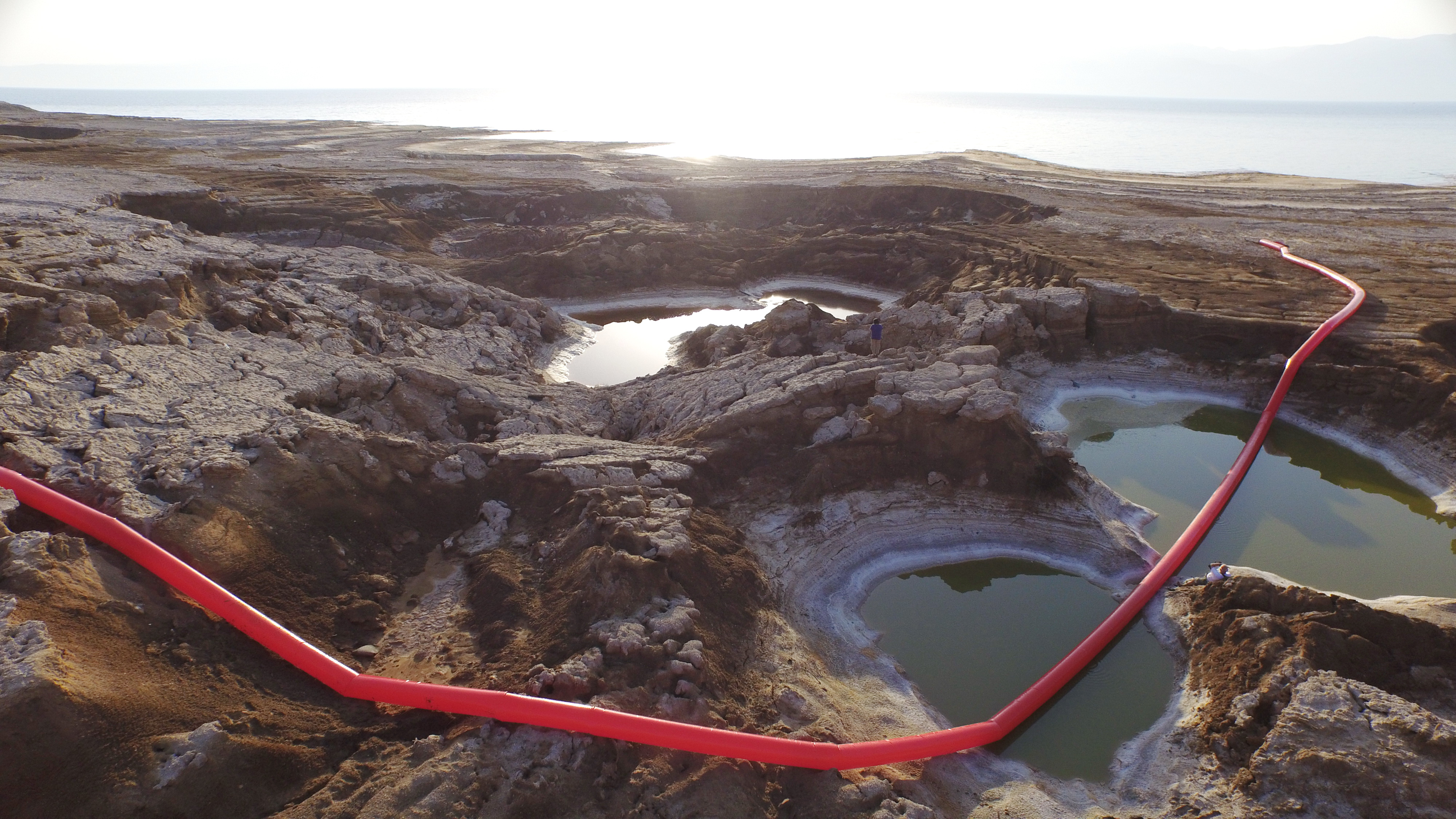 Partial installation view of Gazit's Red Line Project